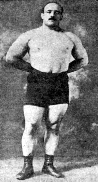 Professional wrestler and strongman Stanislaus Zbyszko